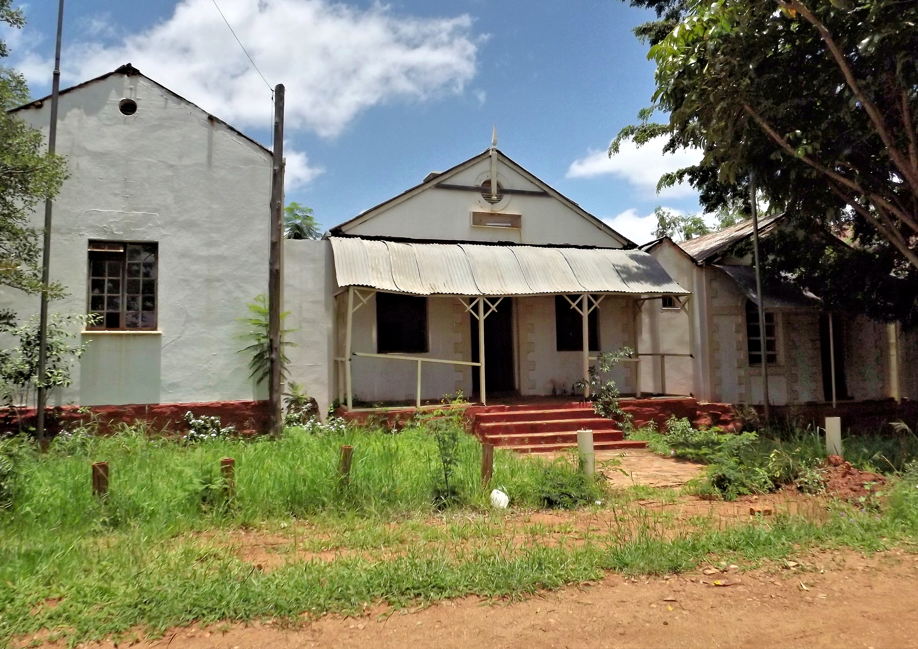 2013: Abandoned hotel in Leydsdorp, a former gold rush town situated in the Limpopo province of South Africa.